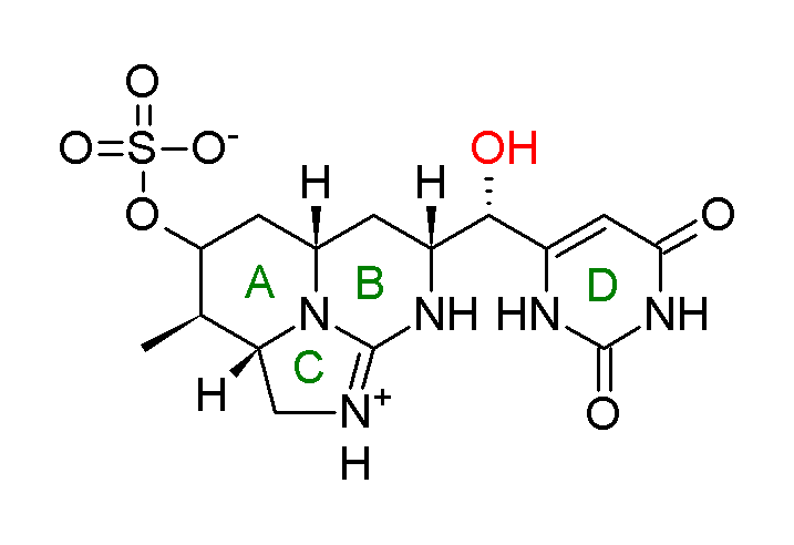 7-Epicylindrospermopsin structure